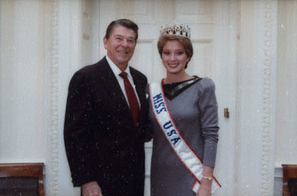 President Ronald Reagan and Terri Lee Utley Photo Op. With Miss USA Terri Lee Utley